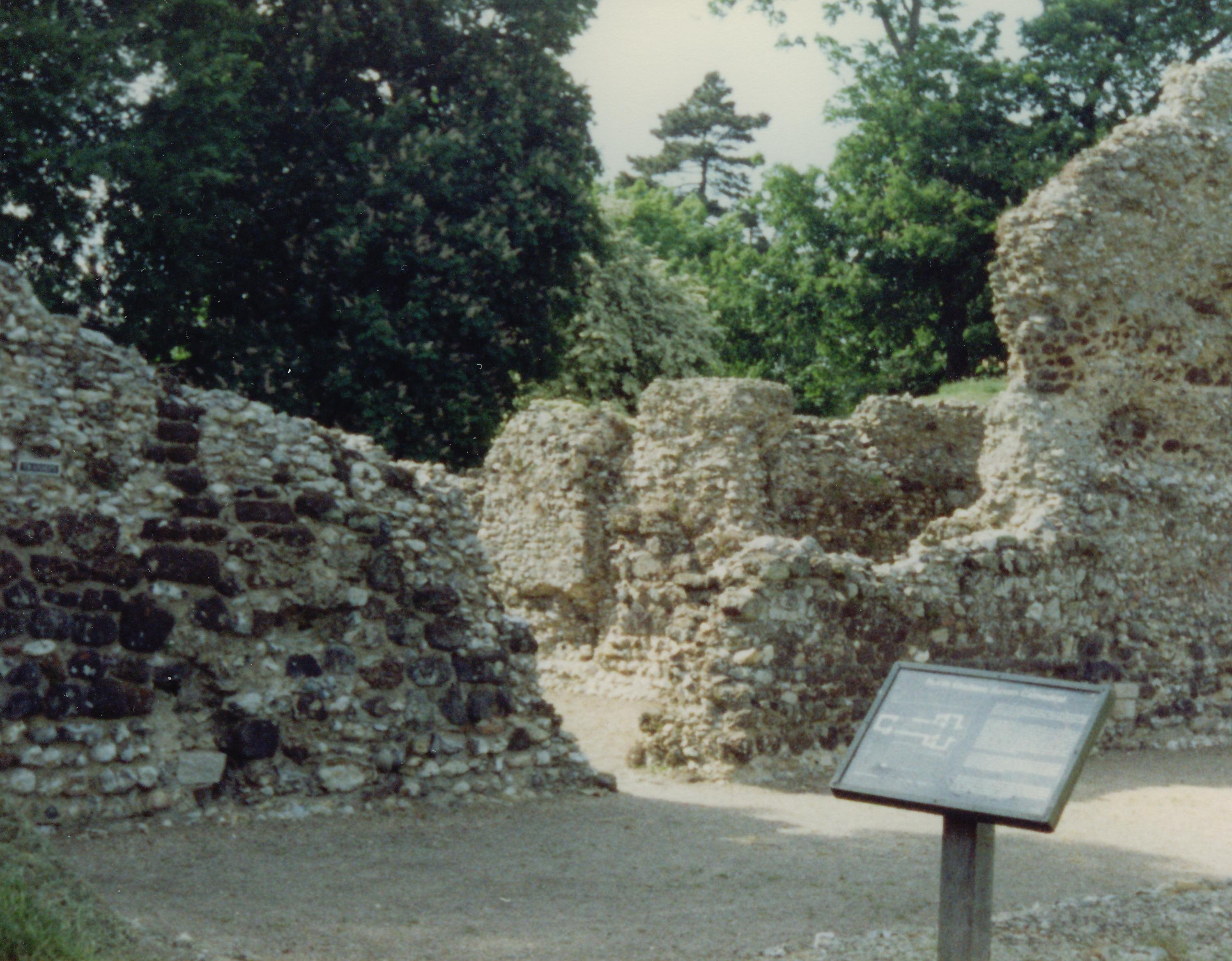 North Elmham, Norfolk, England - Remains on site of Saxon Cathedral